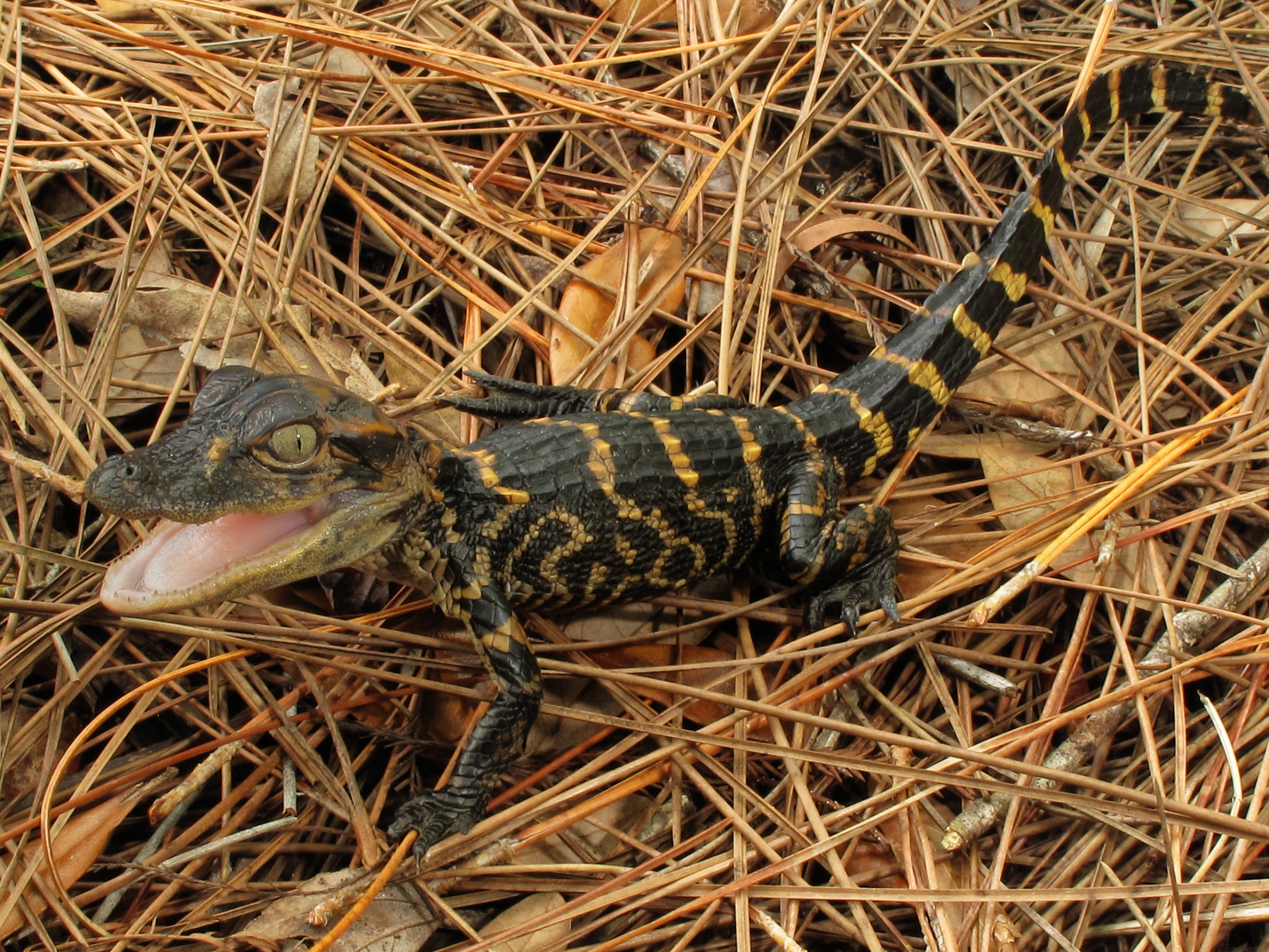 This is a photo of a juvenile American alligator (Alligator mississippiensis) found near Trout Creek in Hillsborough County, Florida. American alligators can be distinguished from the American crocodile by the presence of a broad, rounded snout, without conspicuous teeth protruding while the mouth is closed. The young (like this little guy) have bold, yellowish crossbands on a black background. Alligators are also important to understanding ecological patterns and restoration success, such as in the Florida Everglades, due to their sensitivity to hydrology, salinity, habitat and system productivity. You can learn more about the science work that the USGS conducts in the Everglades by going to: Thanks to Alan Cressler (alan_cressler on Flickr) for sharing this photo with the USGS Science in Action Flickr Group! Share your earth science photo for a chance to be featured in upcoming USGS products and social media